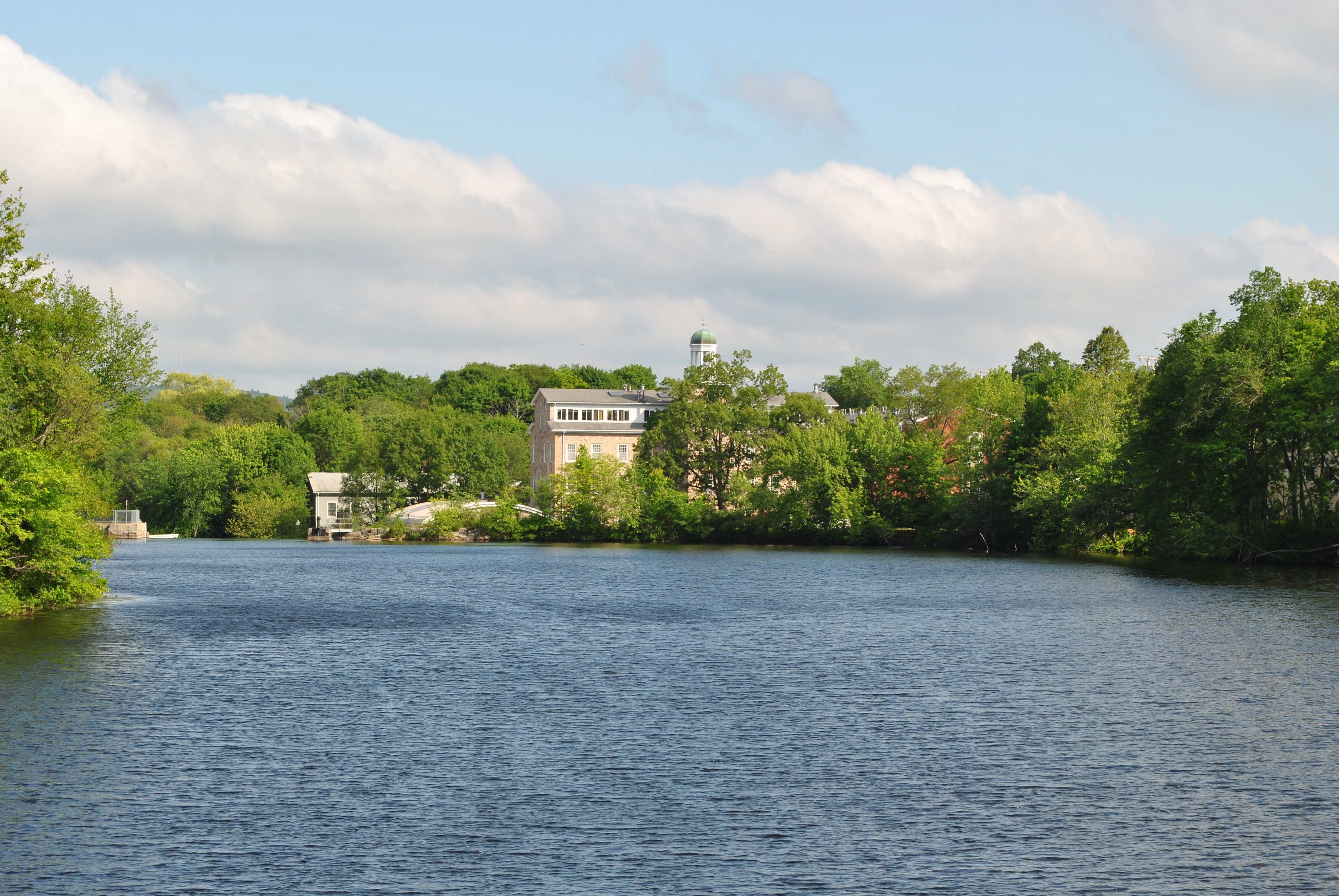 Mother Brook with Stone Mill Condos in the background, as seen from the Saw Mill Drive bridge